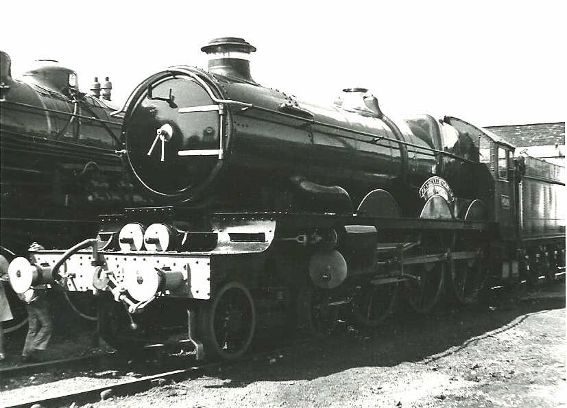 GWR Collett "Castle" Class 4-6-0 No.4079 "Pendennis Castle" with single chimney, 2-row superheater and Collett 4,000 gll tender in 1923 GWR lined green livery. Pictured at Carnforth Steam Museum, 05/75. Scanned photograph taken with a Kowa SET.